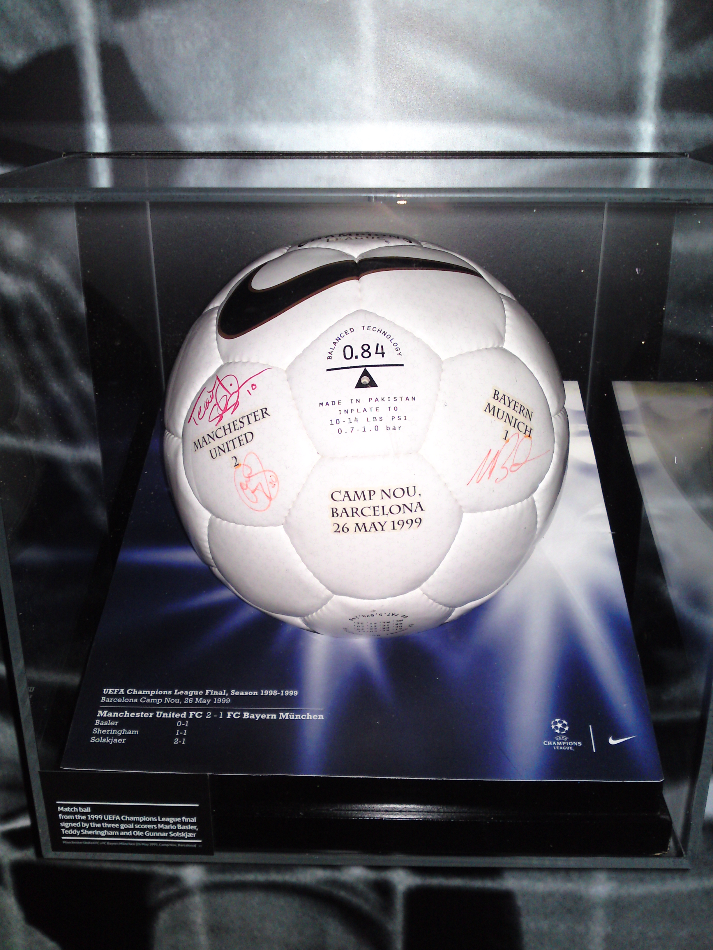 One of the Nike NK 800 Geo balls used for the 1999 UEFA Champions League Final between Manchester United and Bayern Munich at Camp Nou, Barcelona, on 26 May 1999. The ball has been printed with the scoreline, the venue and the date, and signed by the three goalscorers. Photographed at the 2011 UEFA Champions Festival in Hyde Park, London, on 27 May 2011.